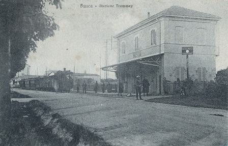 Busca station